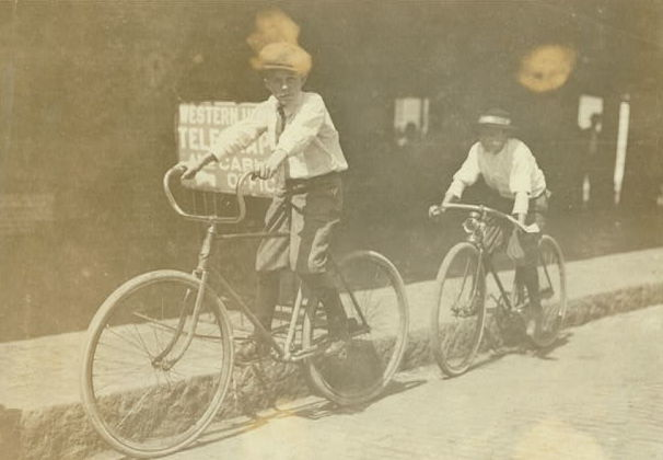 Wilbur Bold, Western Union Messenger No. 14, twelve years old, works until 11 P.M. usually, but all night when they are busy.